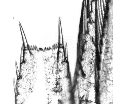 The depicted telson belongs to a specimen of the species of Hemimysis anomala.